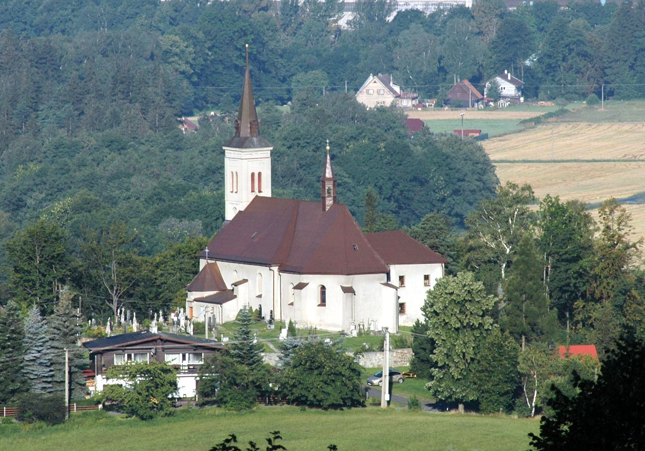 St Ignatius of Loyola church in Malenovice, Frýdek-Místek District, Czech Republic